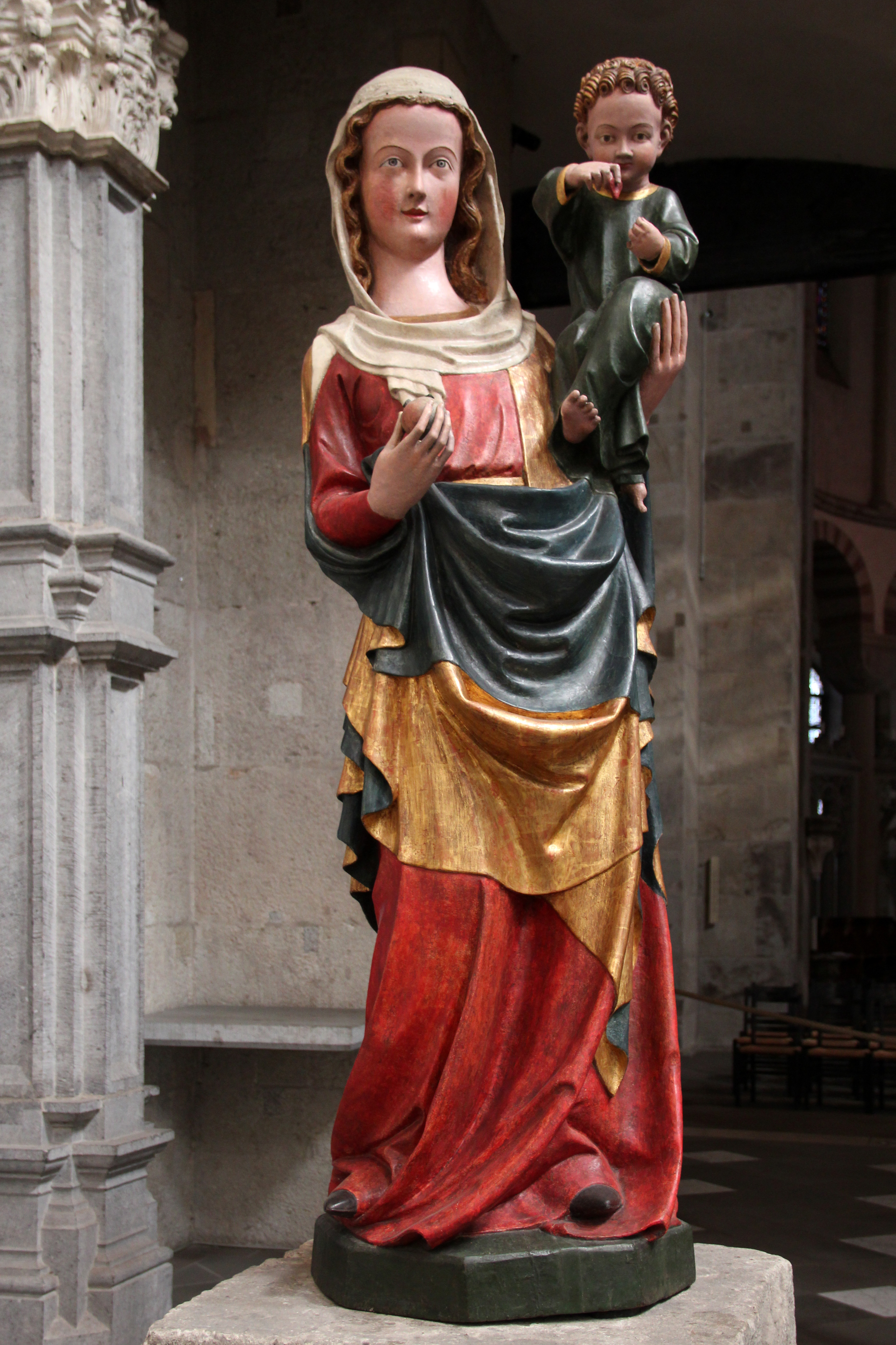 "Limburger Madonna" (1300), Interior of St. Maria im Kapitol in Cologne